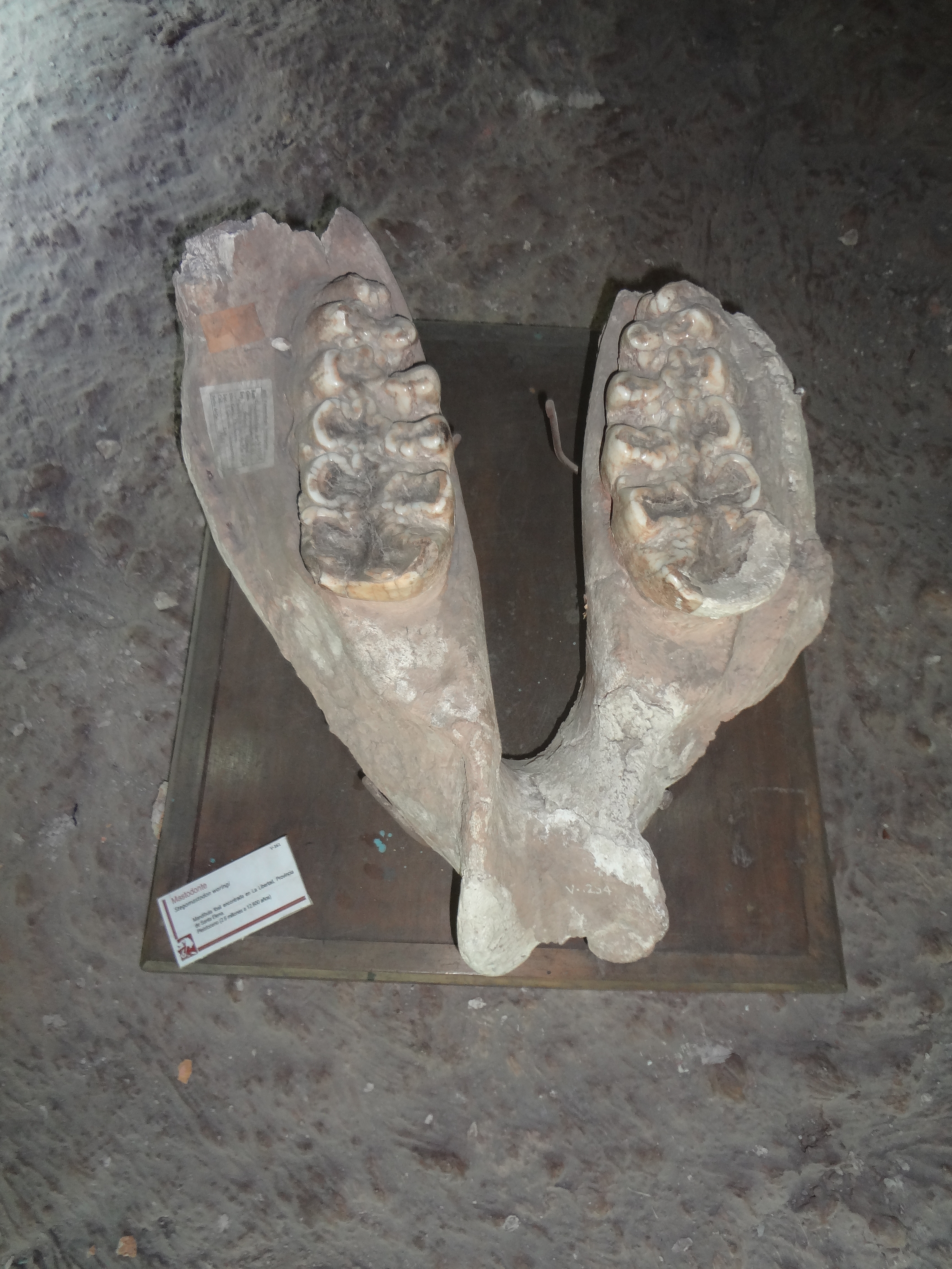 Inside the Gustavo Orcés Natural History Museum is on the campus of The National Polytechnic School (Spanish: Escuela Politécnica Nacional), also known as EPN, is a public university located in Quito, Ecuador.